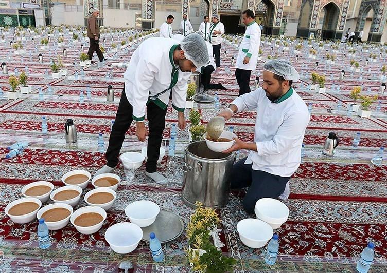 Iftar Serving for fasting people in the holy shrine of Imam Reza